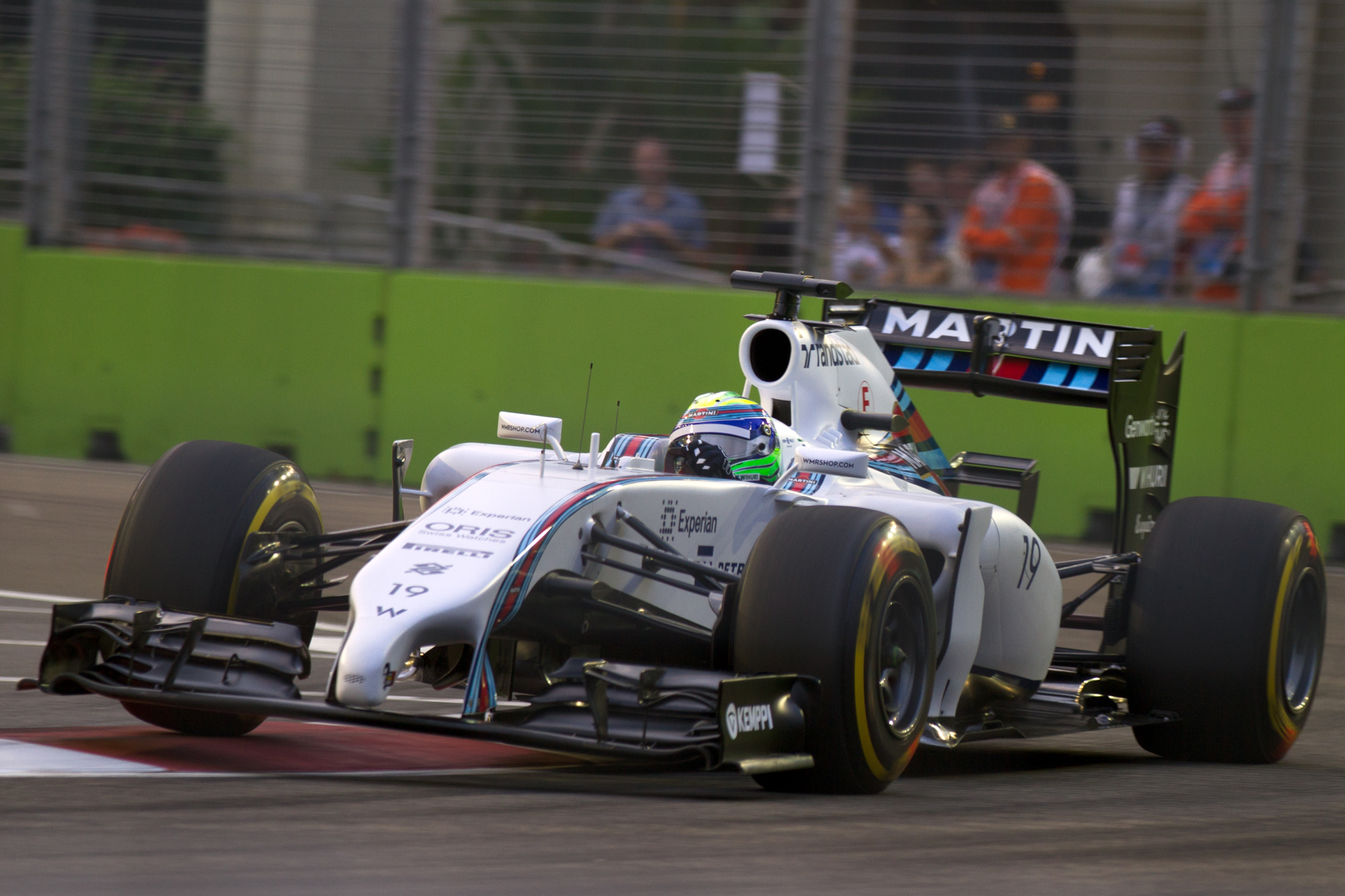 Formula One 2014 Rd.14 Singapore GP: Felipe Massa (WilliamsF1)